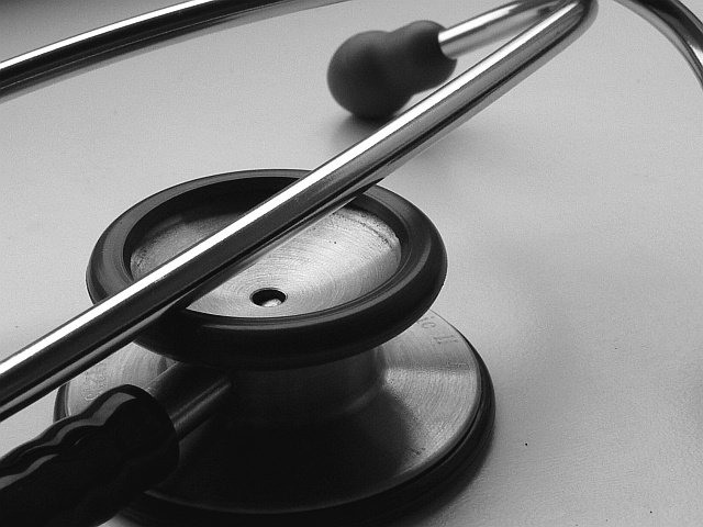 My medical instrument